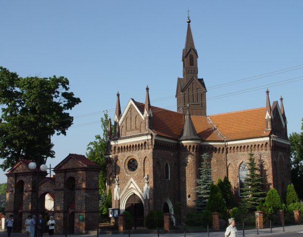 St. Andrew roman catolic church in Konin - Goslawice, Poland, photo: July, 2004. Author: qbas81